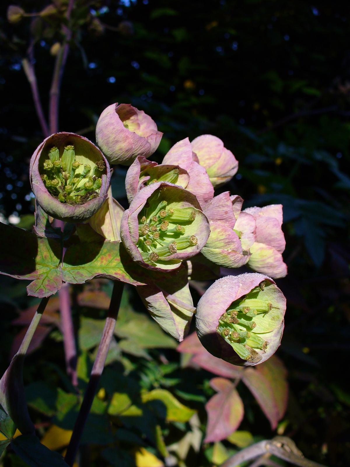 Mathiasella bupleuroides Botanic Garden, Cabrillo College, Aptos, CA. Photographed during the Salvia Summit, 1-2 Aug 2008.